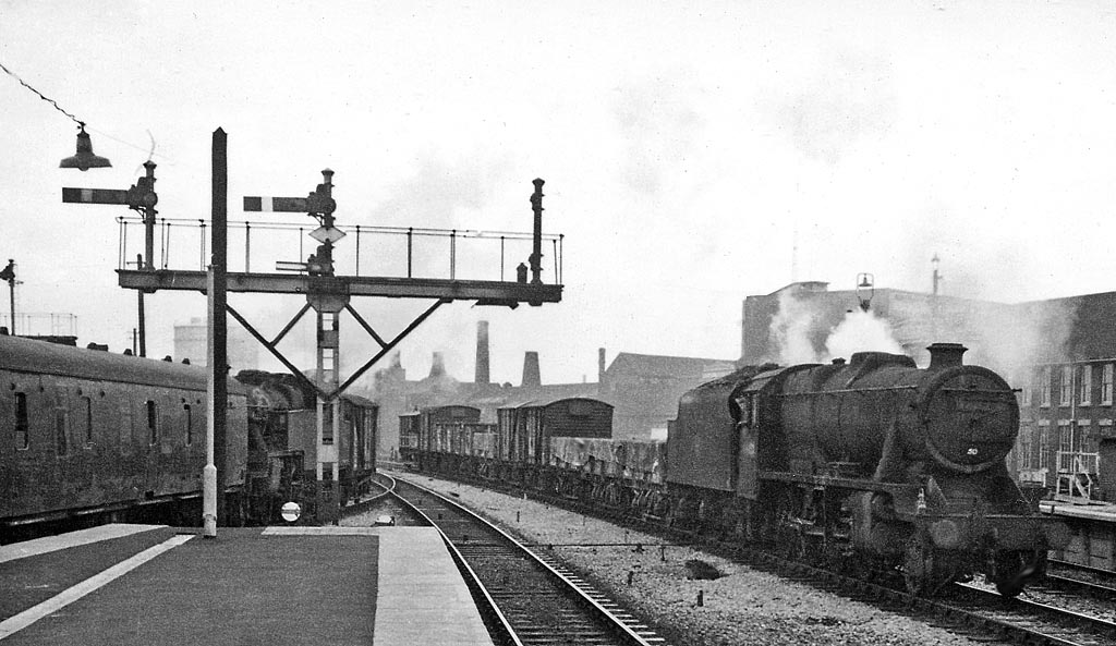 North end of Stoke-on-Trent Station, with an Up freight and a local. View NW, towards Macclesfield, Manchester, Crewe etc.; ex-North Stafford Railway confluence of numerous lines. The Class J freight is headed by Stanier 8F 2-8-0 No. 48452, the local passenger train by Stanier/Fairbairn 4MT 2-6-4T No. 42665.